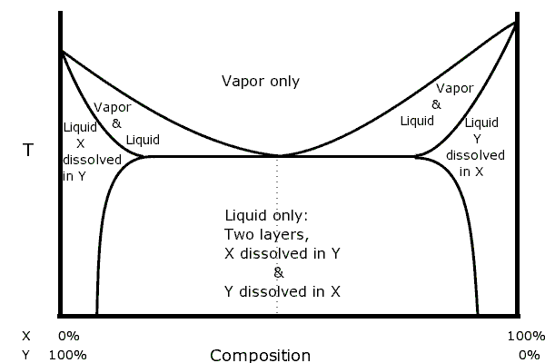 Subject: Phase diagram of heteroazeotrope. Prepared using GIMP 2.2 on 12 April 2007 Status: Released to public domain